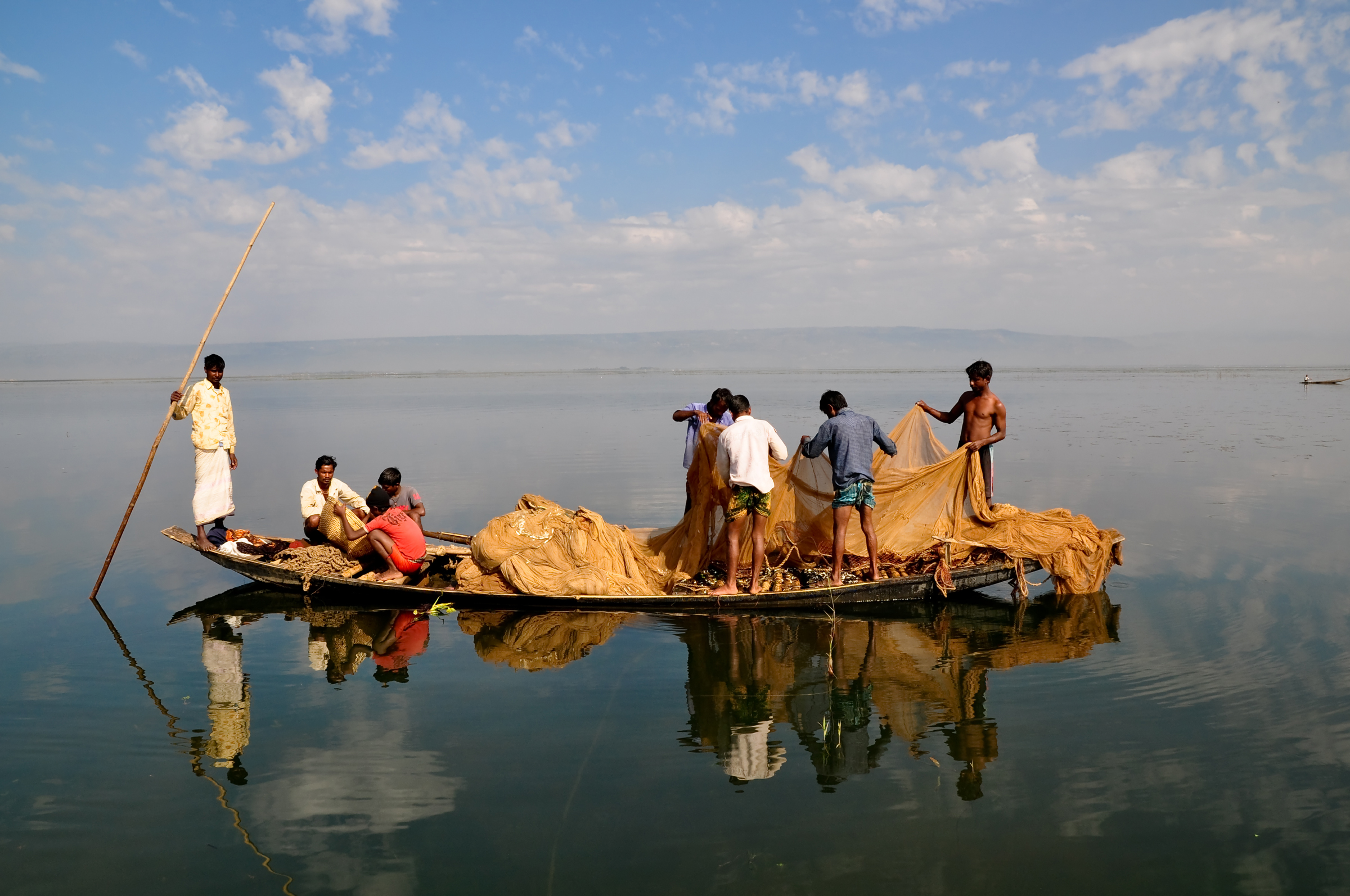 Fishing in Matian haor, Sunamganj, Bangladesh.